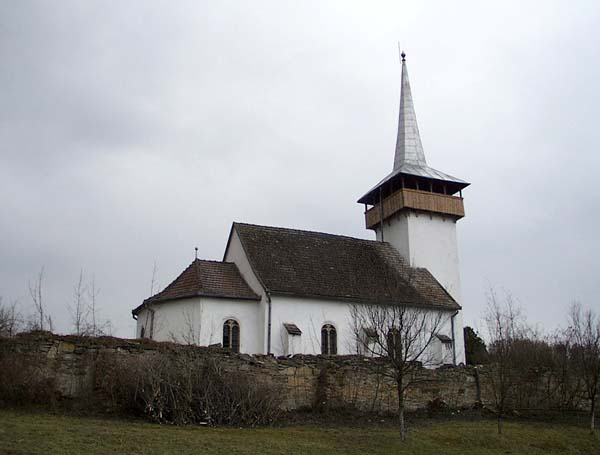 Church in Kendilóna (Luna de Jos, Cluj County, Romania)